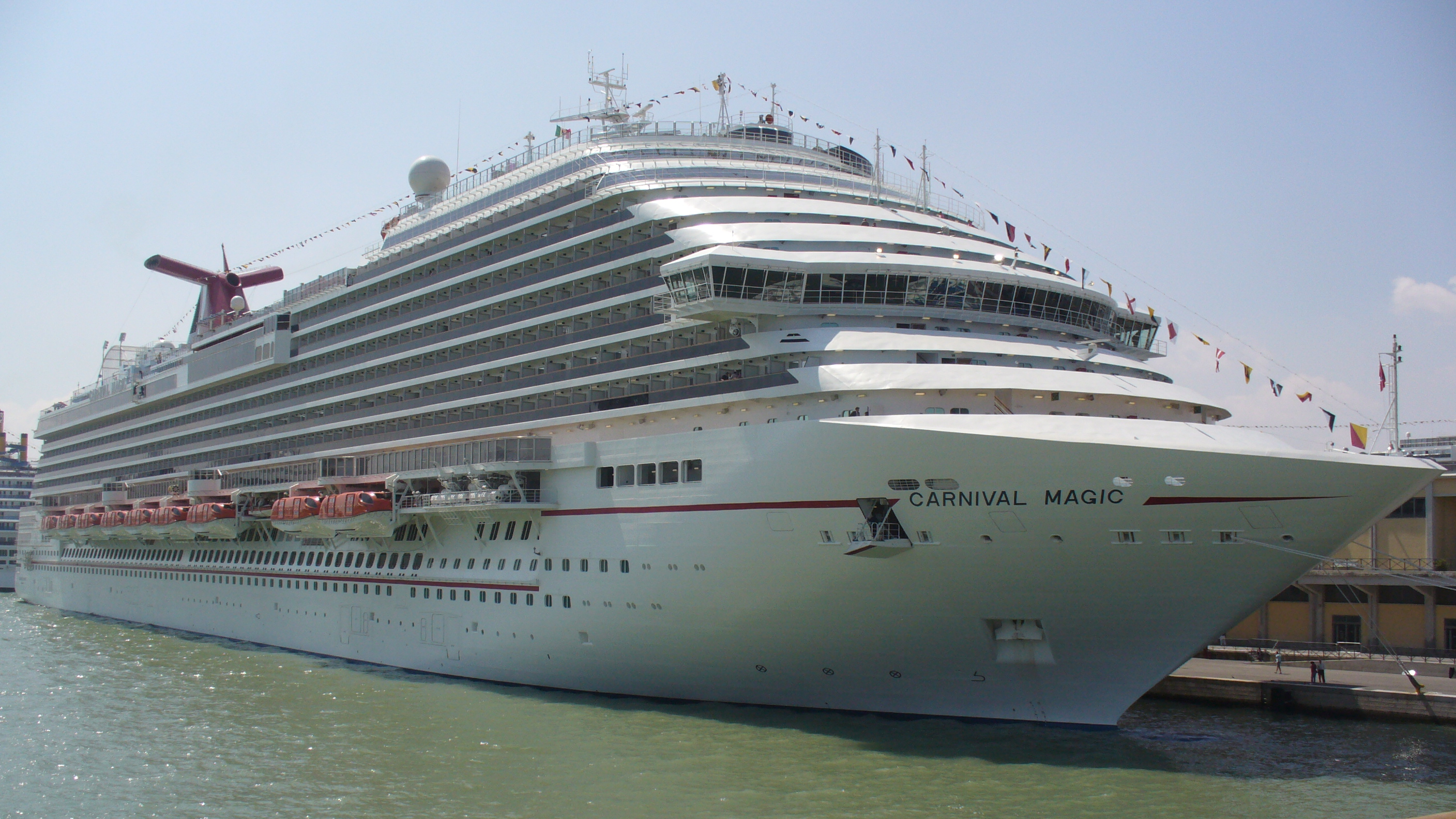 Carnival Magic shortly before entry into the port of Venice